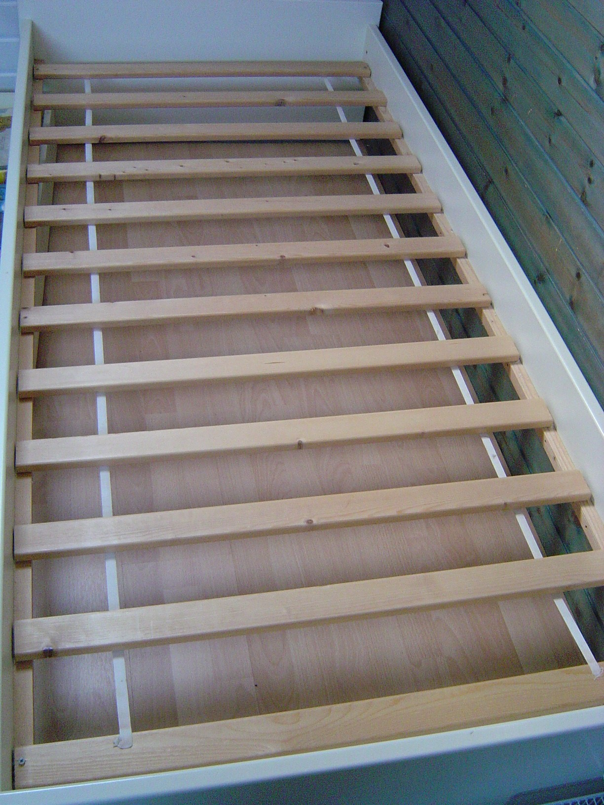 Bed base